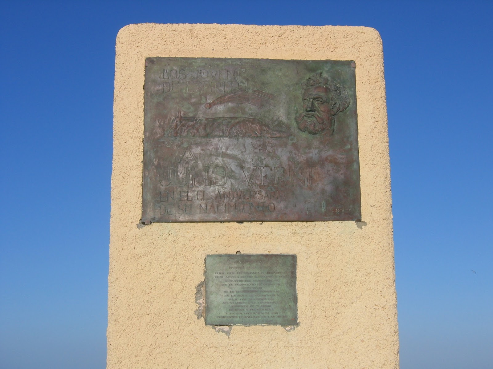 Memorial for Jules Verne in Formentera (Spain).